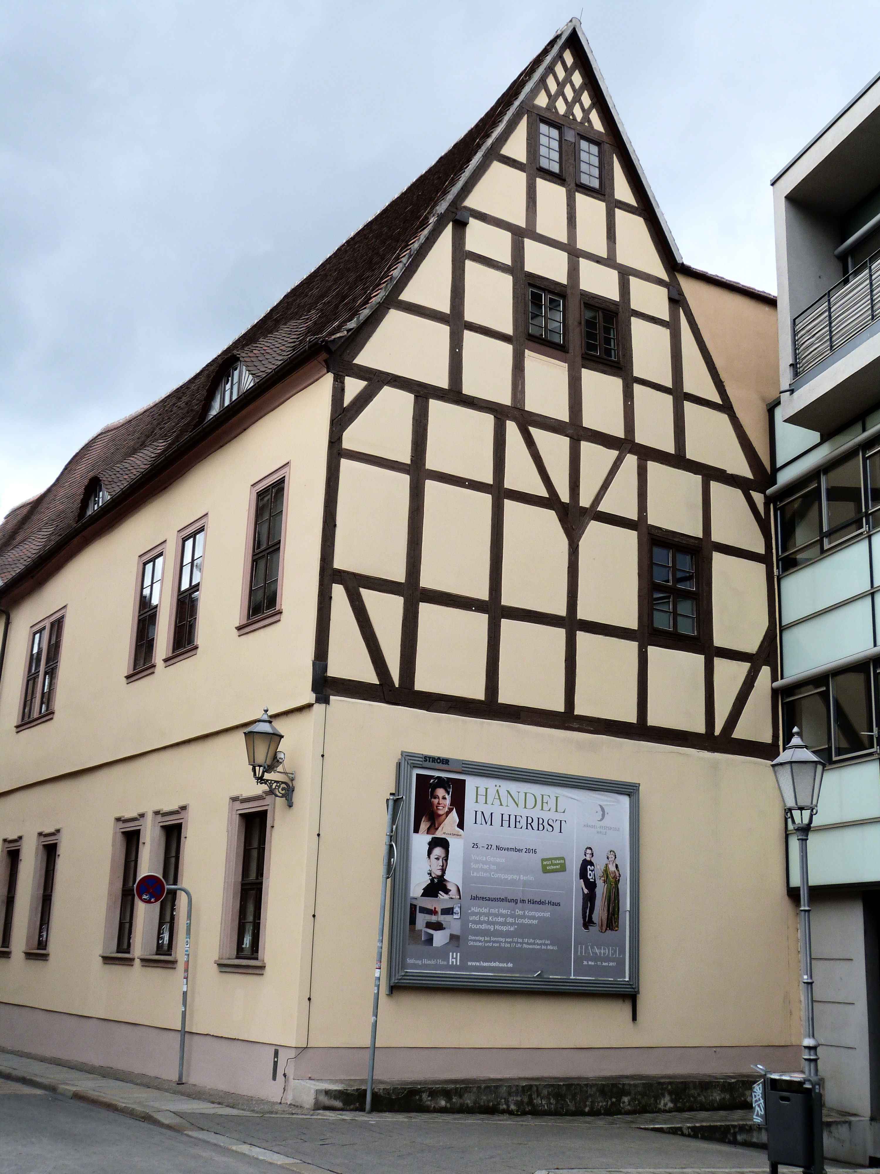 House No. 6 Grosse Nikolaistrasse in Halle (Saale)